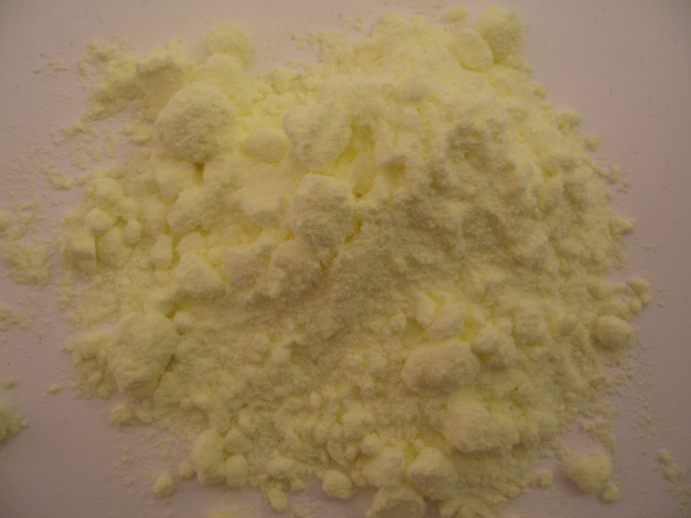 Sulfur powder